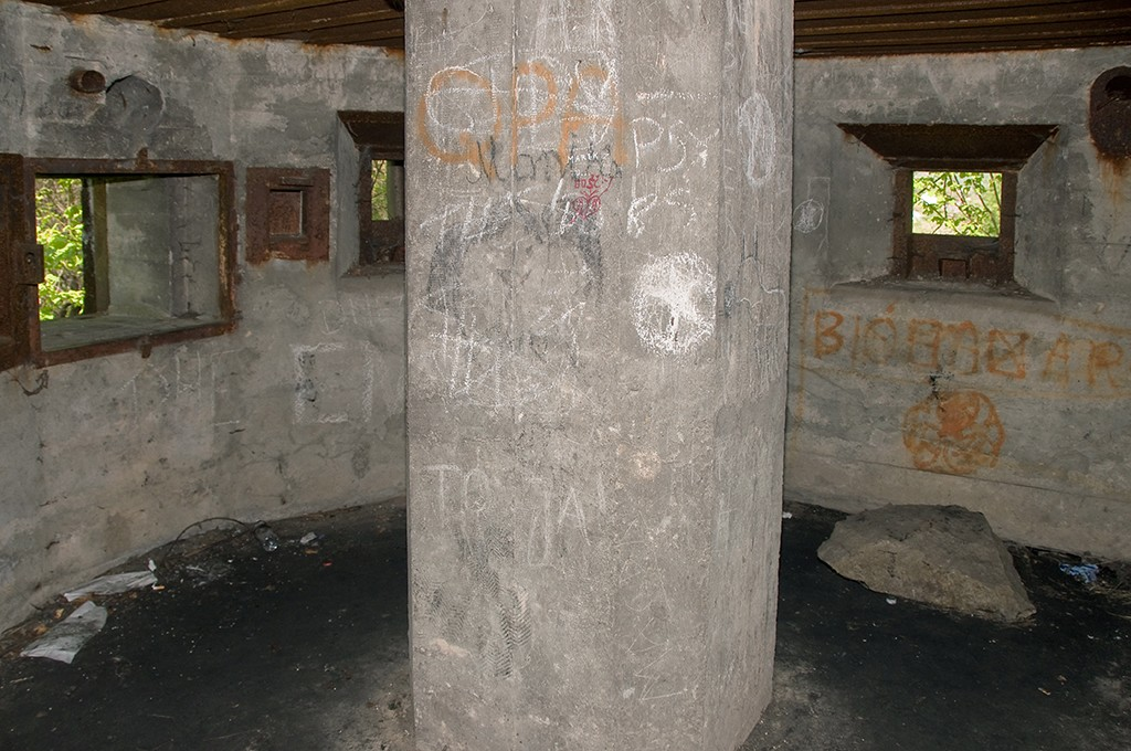 Poland; Przyborow; fort